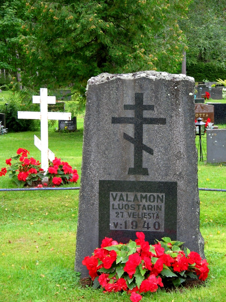 The memory stone of 27 orthodox monks of Valamo monastery in the graveyard of Kannonkoski, Finland